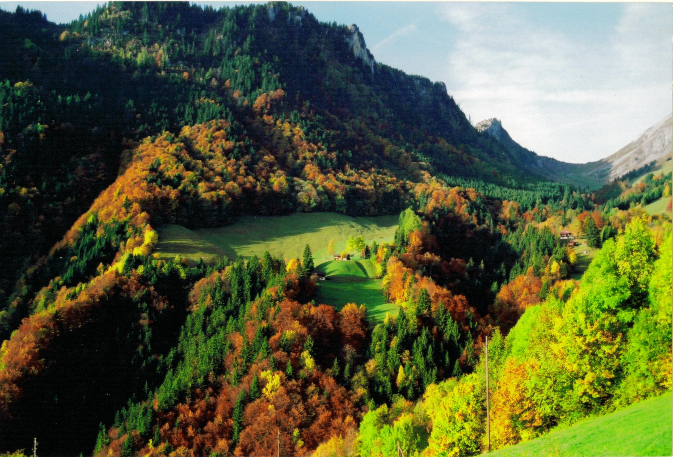 Picture of the locality of En Nayes, in the municipality of Vouvry, Valais, Switzerland